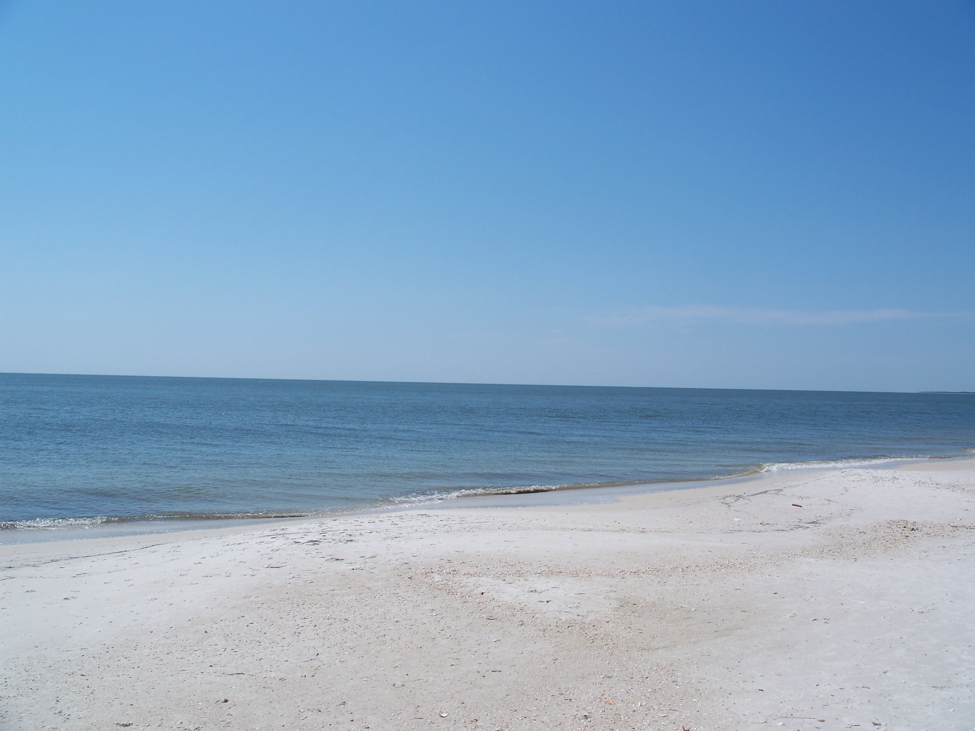 Mexico Beach, Florida: The Gulf of Mexico. Looking in the direction of the wreck of the Vamar, to the southwest.